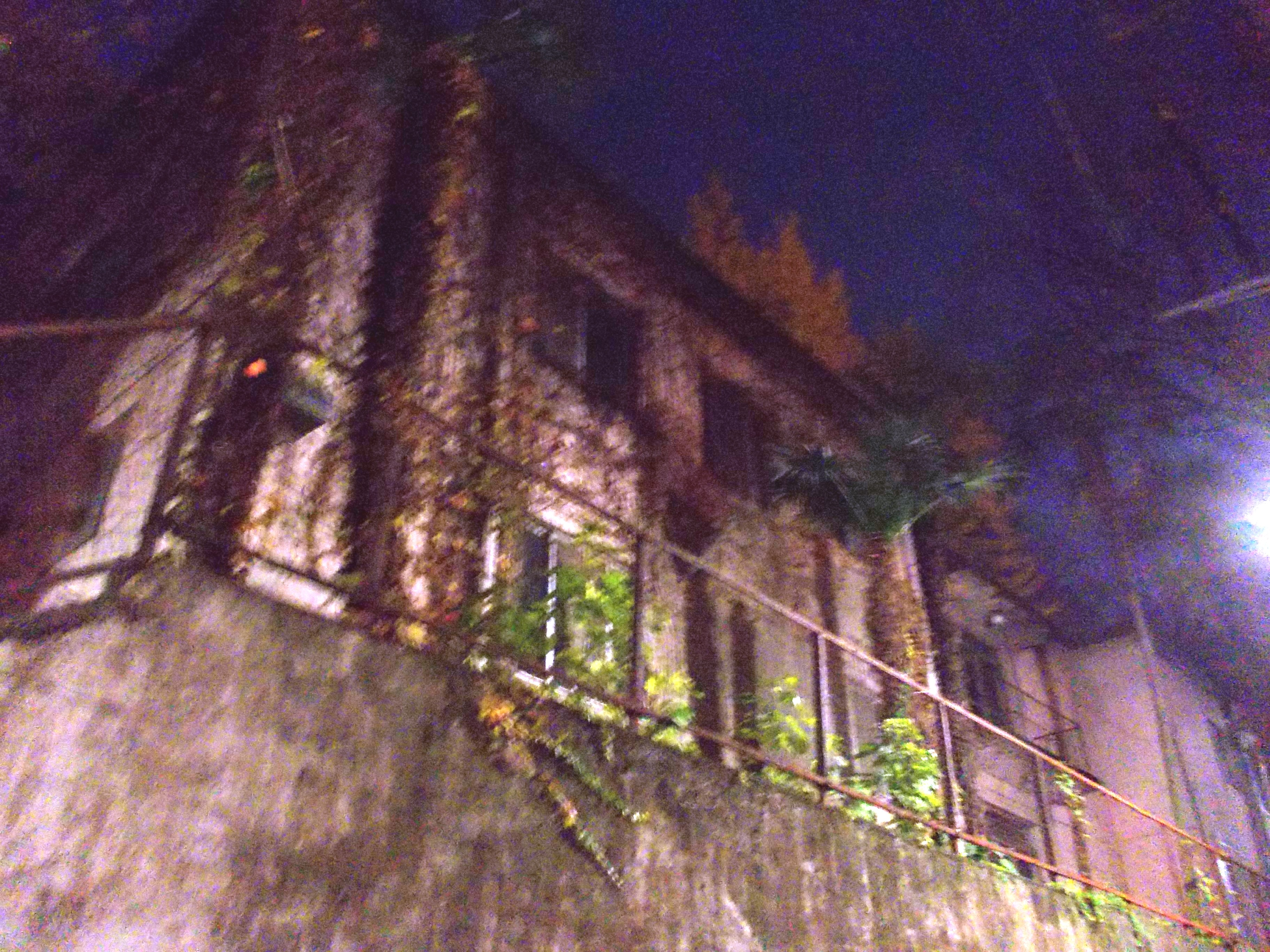 Minato ward